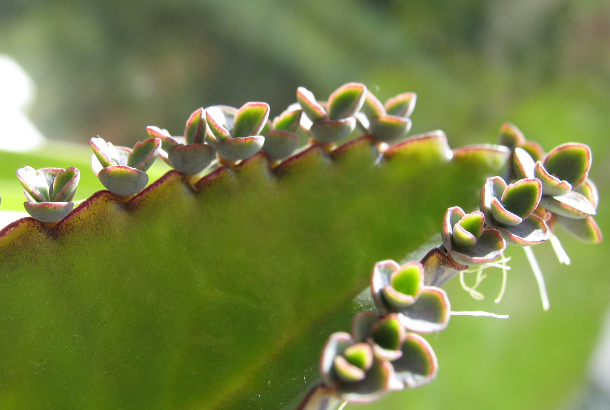 Closeup of a Bryophyllum daigremontianum. Photo was taken by my self with Canon PowerShot Pro 1